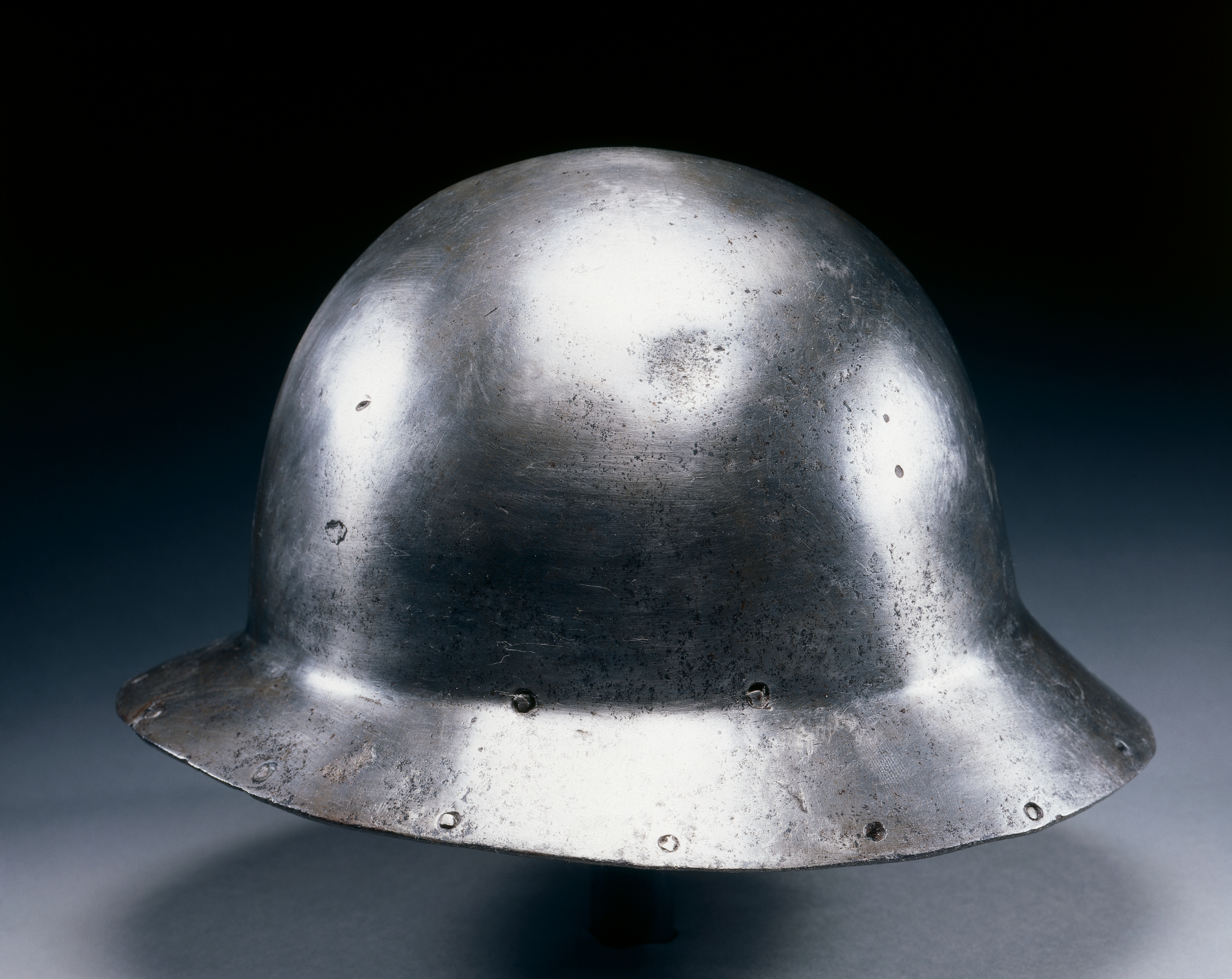 Open helmets like this one were used by medieval infantries. The helmet weighs 12-1/2 pounds. This unusual weight was required for siege purposes—such helmets were worn by the men who attempted to scale the walls of an armed town. The rivet holes along the ridge were for the attachment of the liner.